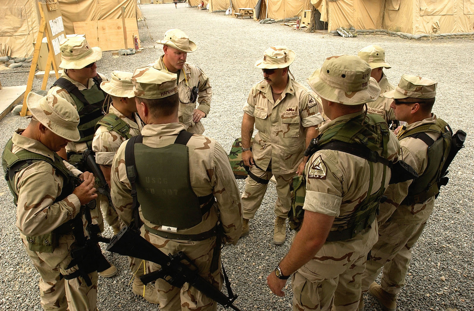 ASH SHUAIBA, Kuwait (March 26, 2004) Second Squad from Coast Guard Port Security Unit (PSU) 307 from St. Petersburg, Fla., get a briefing before heading out to guard checkpoints. PSU 307 is currently deployed to the region to help protect the Port of Ash Shuaiba and the coalition ships involved in the largest redeployment of troops and equipment since World War II. The troops and equipment are heading into and out of Iraq in support of Operation Iraqi Freedom. Coast Guard Port Security Units are comprised mostly of reservists and are often deployed overseas to protect strategic ports used by the U.S. Navy and coalition forces. The units include heavily armed high-speed boats and a shoreside security force trained in combat skills and tactics.